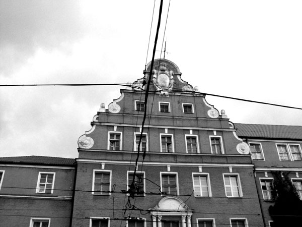 Object: Old administrative building in Kaliningrad Original description: This was another left over building from the Prussian times. Comment by User:Kneiphof. This building, that in situated just outside Pobyedy square was build before World War II, and now FSB (former KGB) quarters are situated in it.